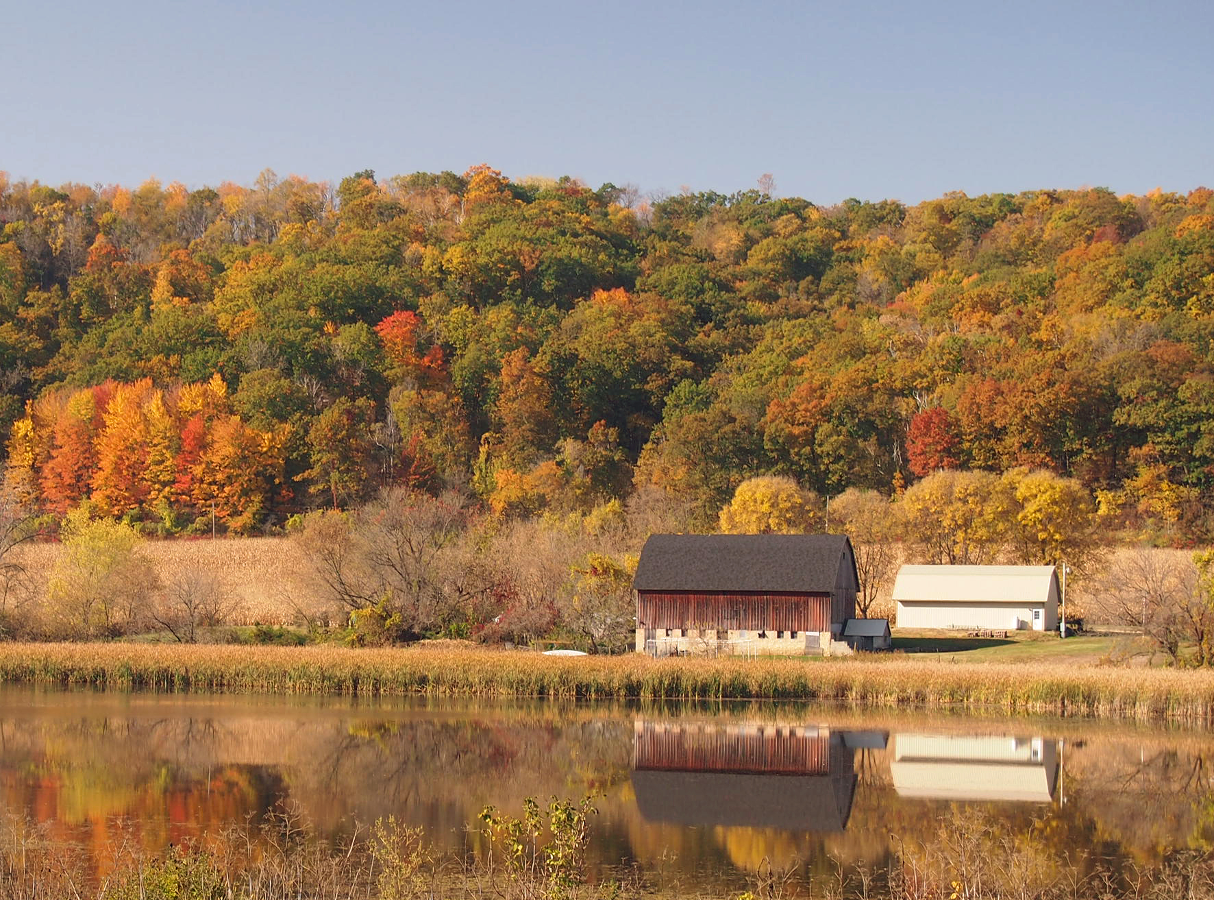 Barn opposite U.S. Route 61/63 in Wacouta Township, Goodhue County, Minnesota, USA